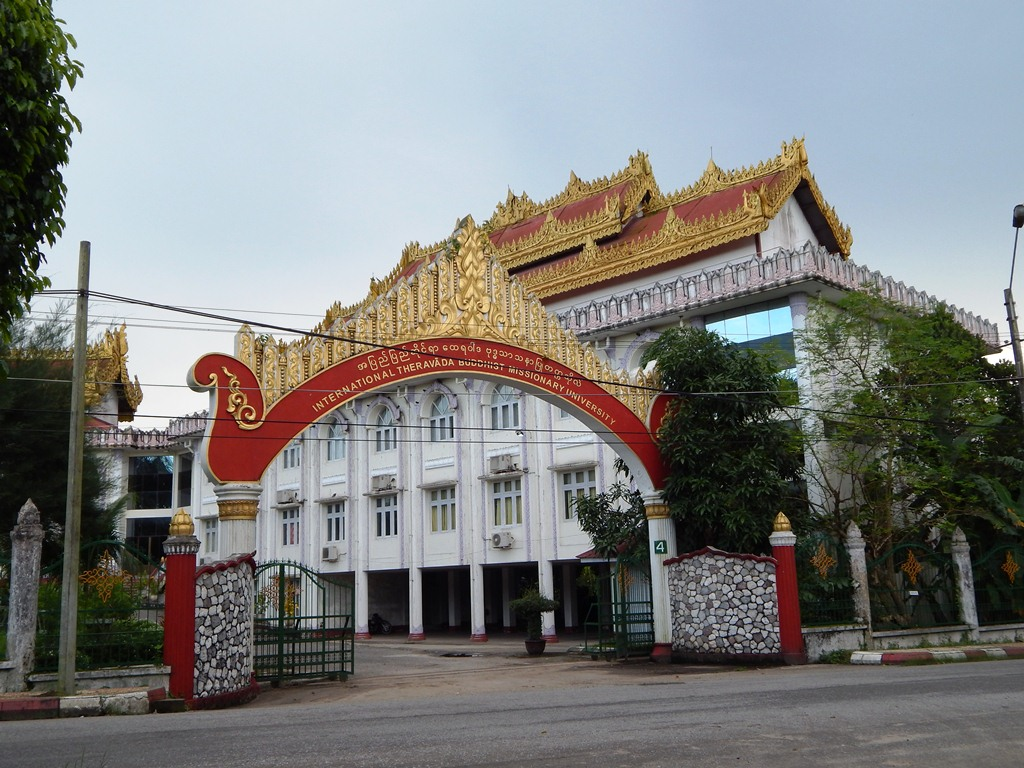 International Theravãda Buddhist Missionary University, Yangon, Burma